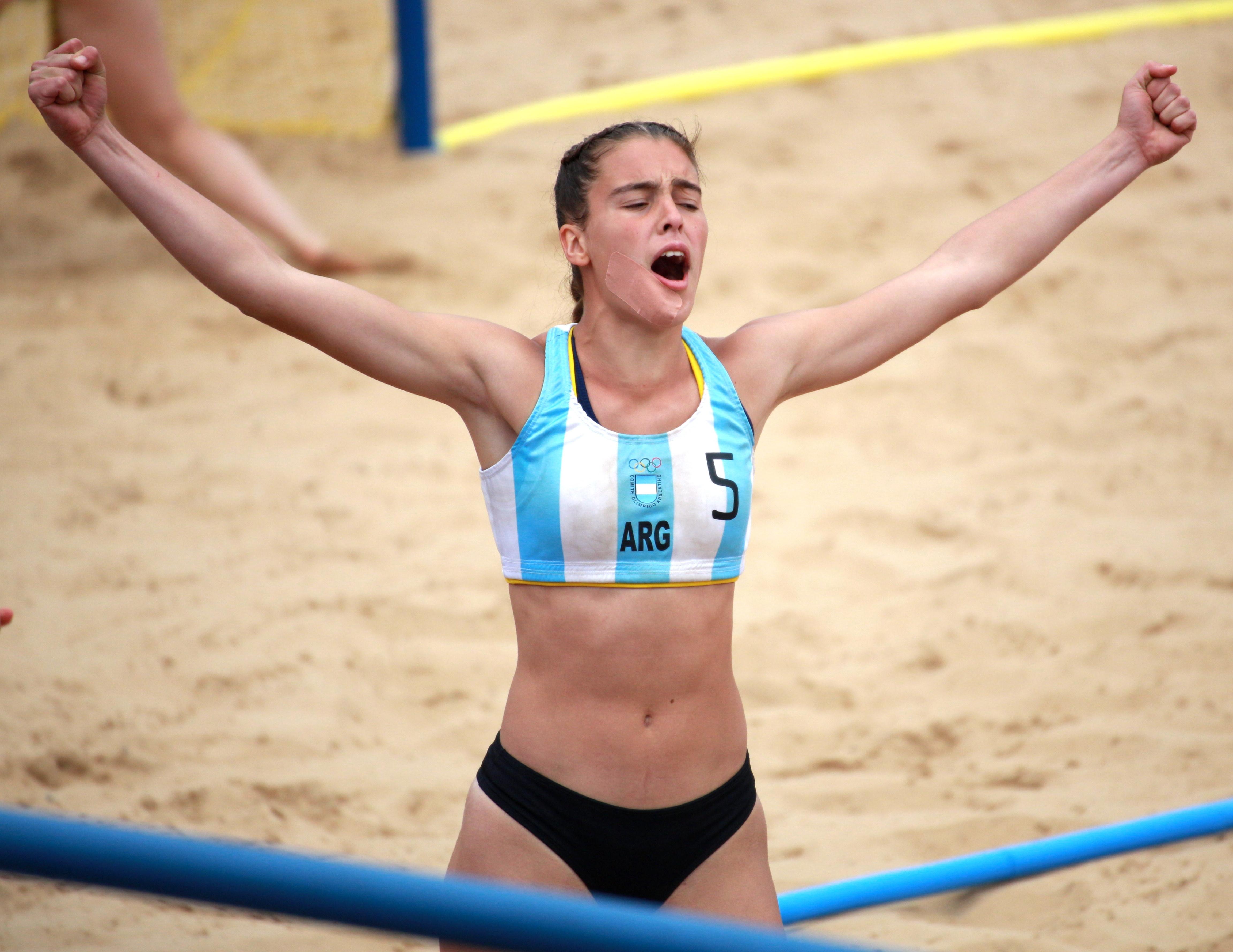 Beach handball at the 2018 Summer Youth Olympics at 11 October 2018 – Girls Main Round – Hungary-Argentina 1:2